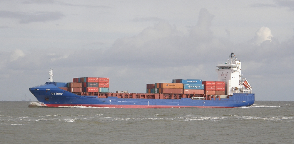 IMO number: 9375252 1st name: ICE BIRD flag / nationality: Cyprus completion year: 2007 shipyard: Sainty Shipbuilding, China yard / hull number: 05STIG12 engine design: MAK engine type: 8M43C power output (KW): 7.200 maximum speed (Kn): 17,3 overall length (m): 129,20 overall beam (m): 20,60 maximum draught (m): 7,20 maximum TEU capacity: 690 container capacity at 14t (TEU): 441 reefer containers (TEU): 120 deadweight (ton): 8.210 gross tonnage (ton): 7.460